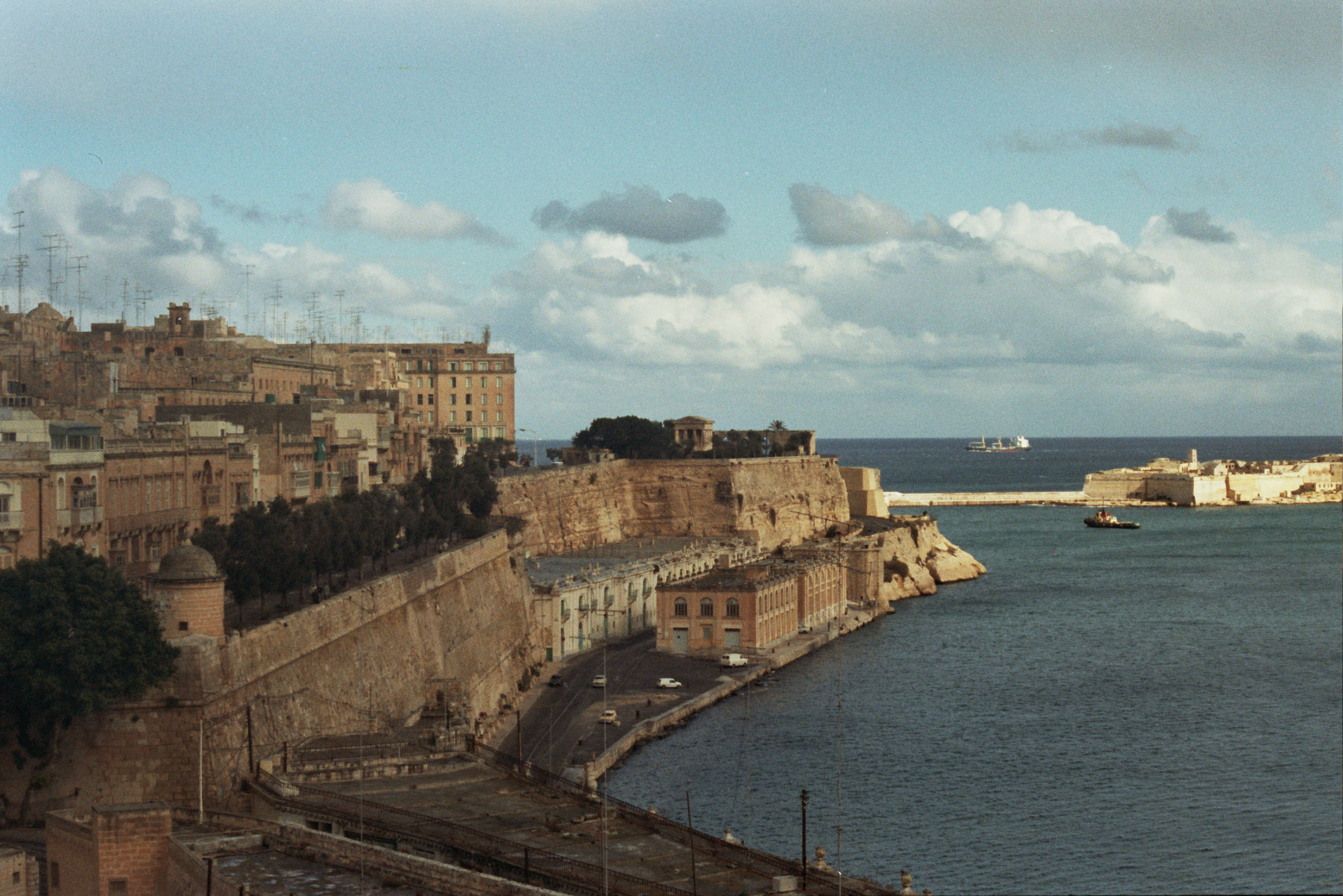 Valletta on Malta at the time of Chess Olympiad 1980, Photographer Gerhard Hund.